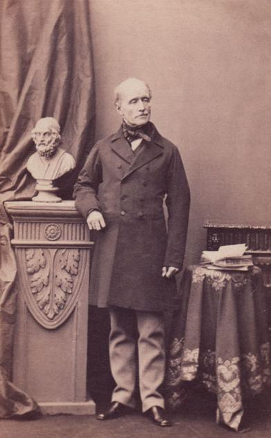 Portrait of Field Marshal Sir Charles Yorke